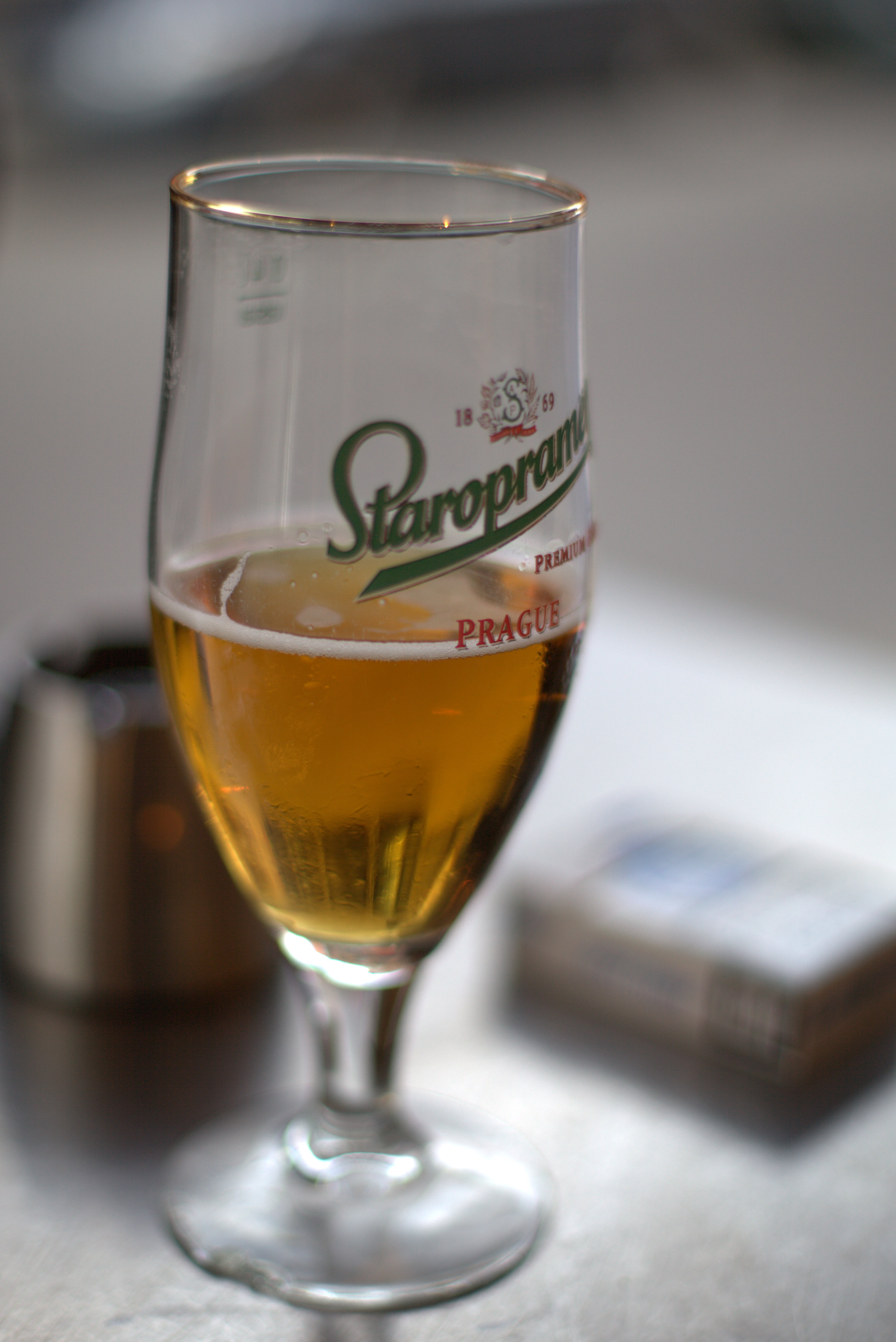 Halfull glass of Staropramen outside a pub (Notting hill) in Gothenburg. Taken with 50mm f/1.4 (slightly cropped).